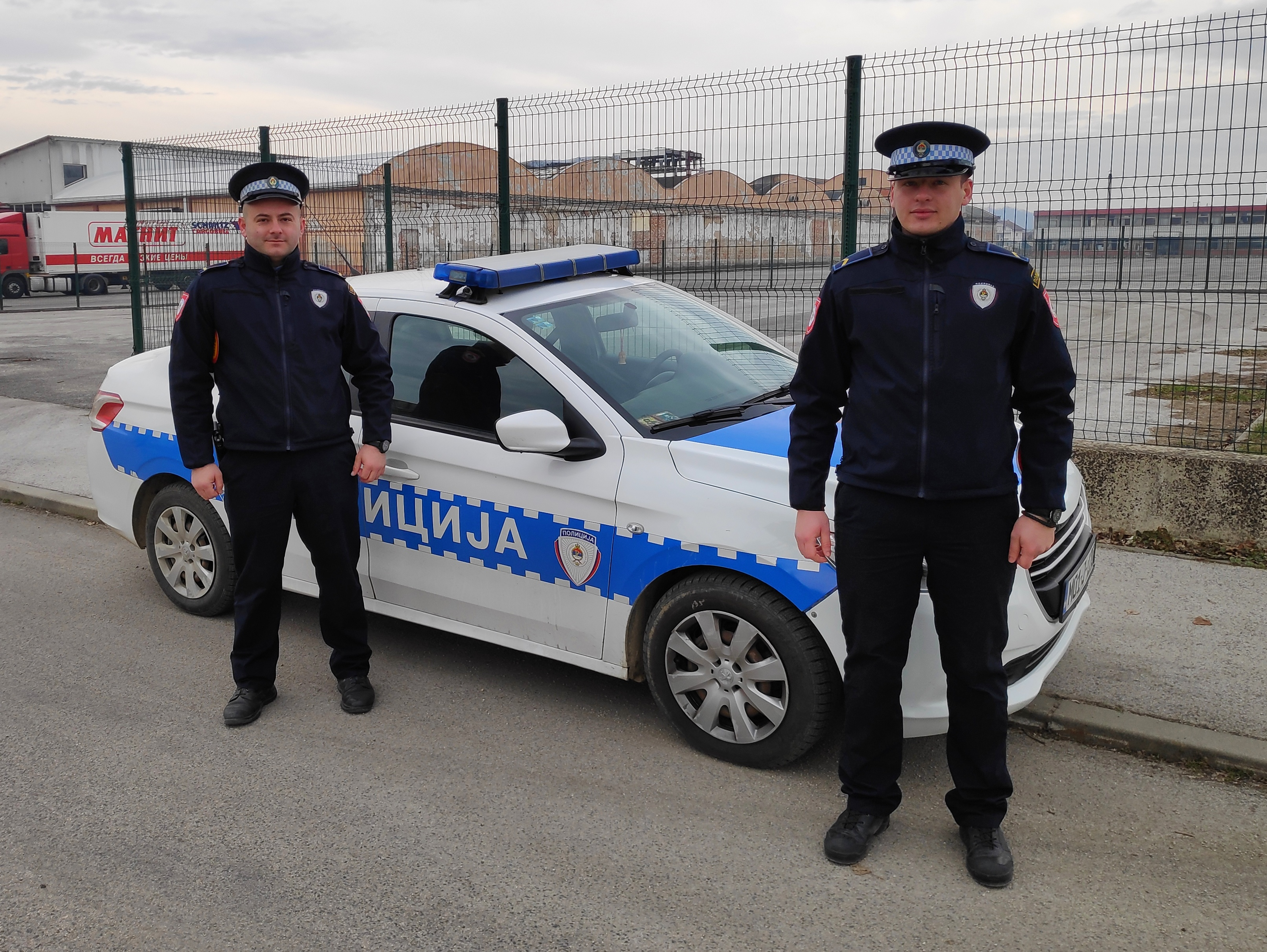 Police of Republika Srpska (2019)